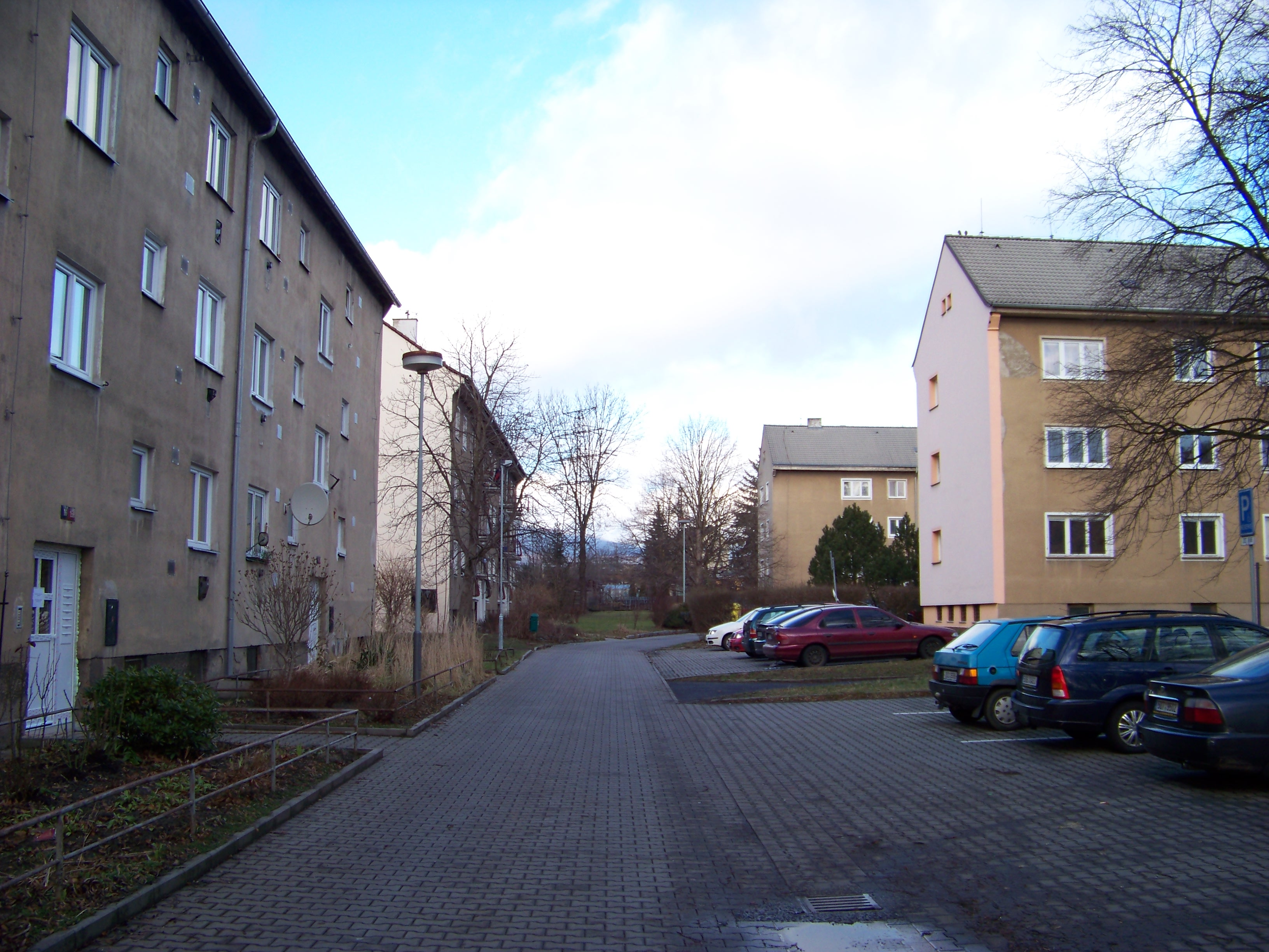 Ústí nad Labem-Všebořice, the Czech Republic. Havířská and Hornické domy street. - OpenStreetMap(Info)